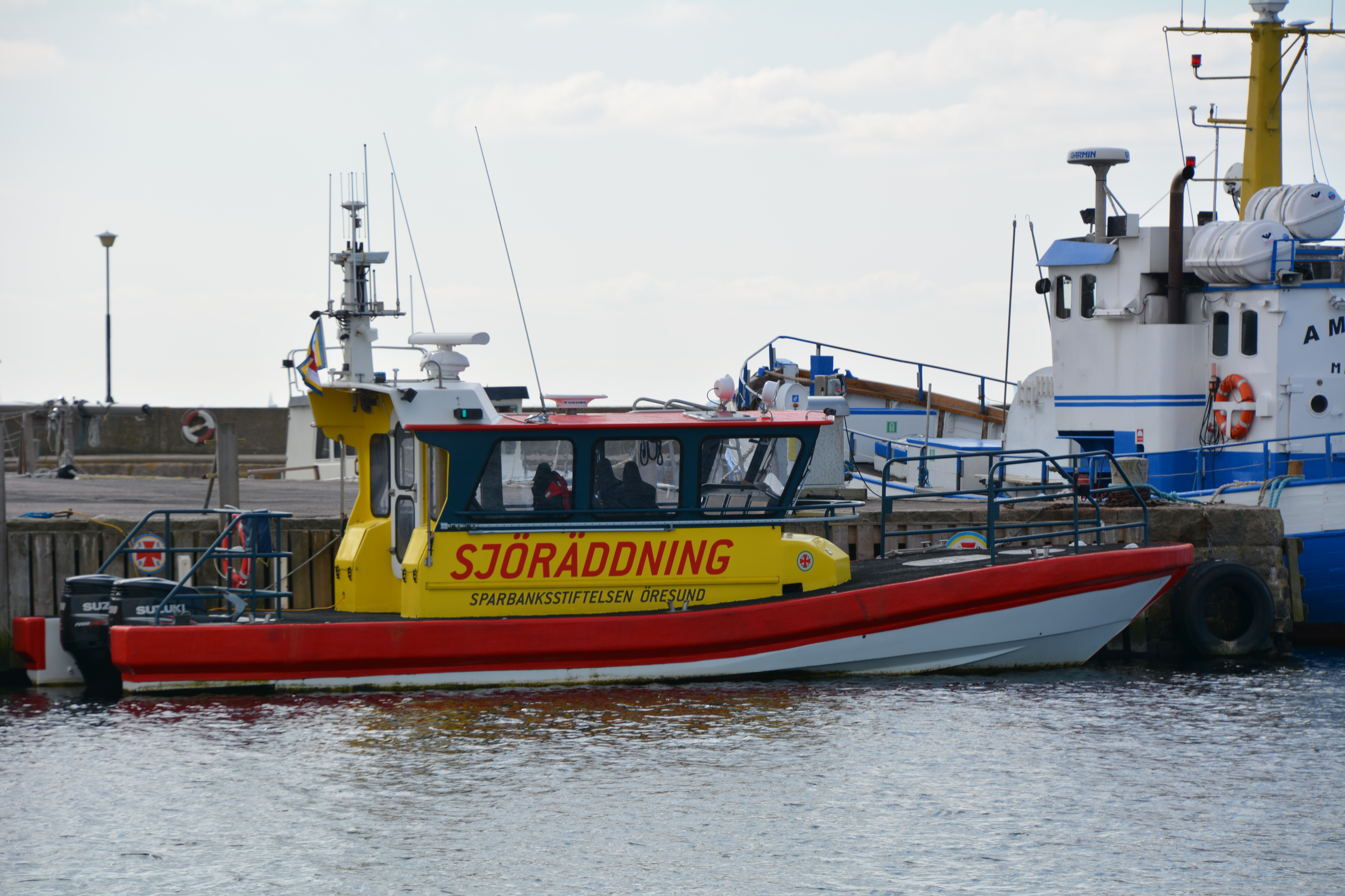 Rescue Sparbanksstiftelsen Oresund I Barsebäckshamn, Sverige